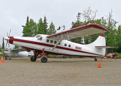 N93PC DHC 3 Turbo Otter 'Rediske Air', photograph by Keith Burton, Alaska, 19 June 2011